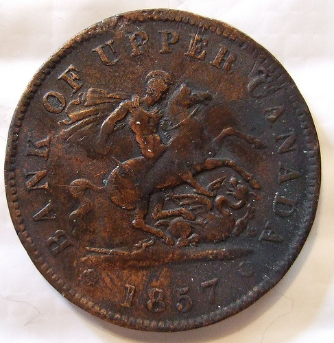 Bank of Upper Canada 1857 one penny token issued before Canada became a nation. In 1857 Canada was still a province of the British Empire.